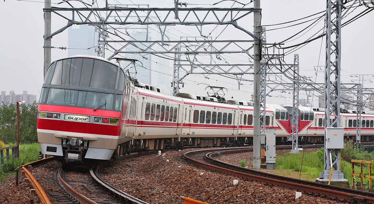 Meitetsu 1000 Series EMU (1004F + 1010F) between Shimo-Otai Stn. and Higashi-Biwajima Stn.